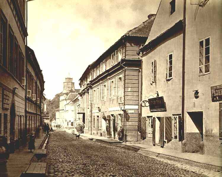 Castle (Pilies) street in Vilnius 1873-1881